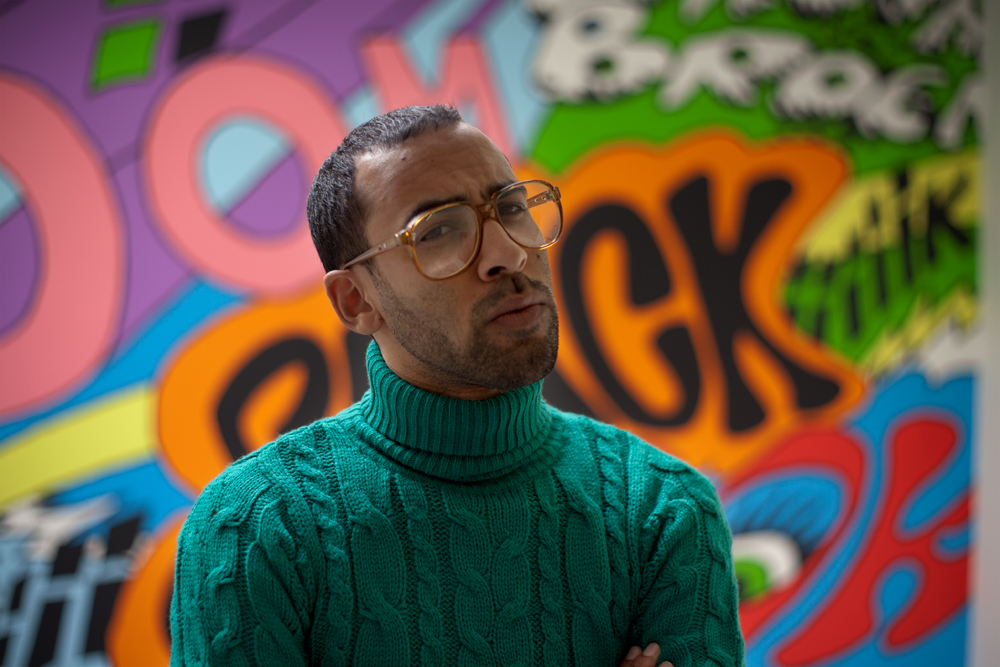 Action picture of Bas Bron